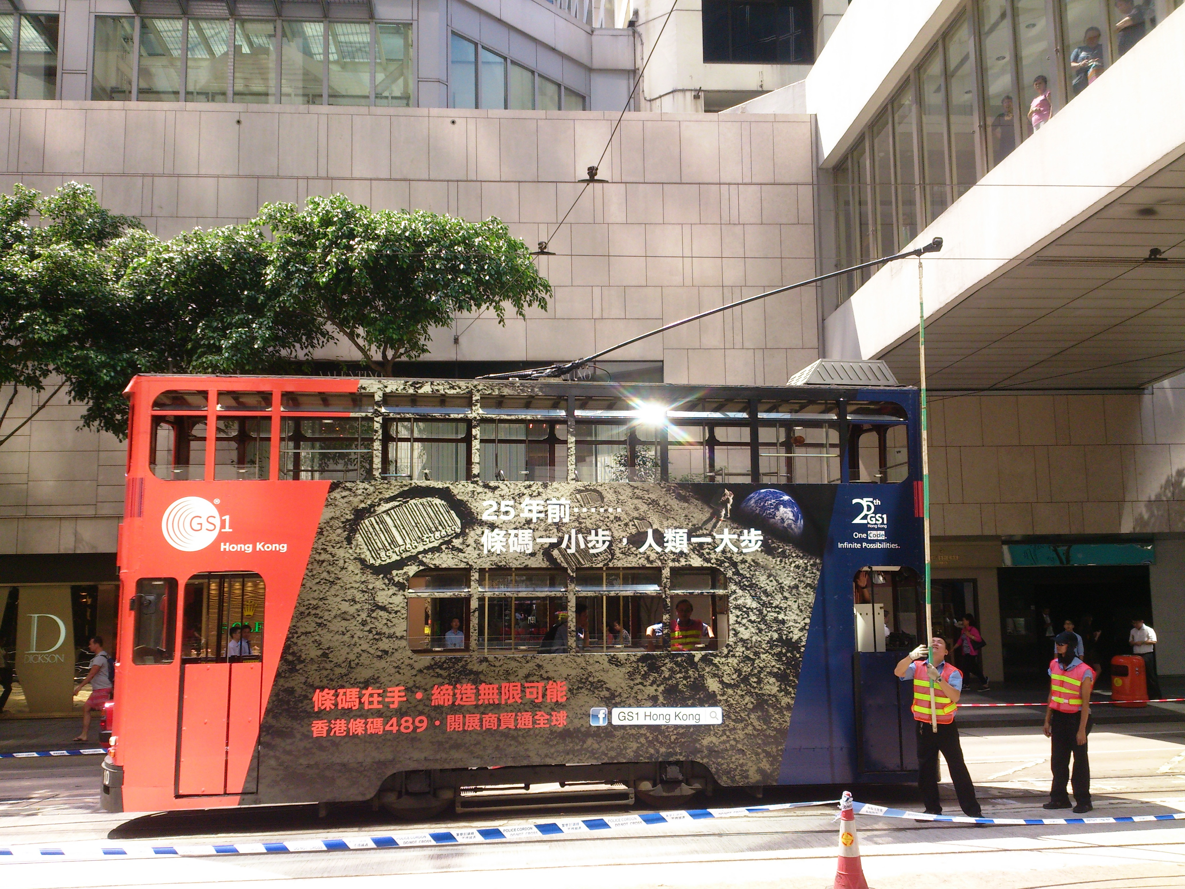 中文（香港）: Start reversing a tram in Central on 2014-10-13